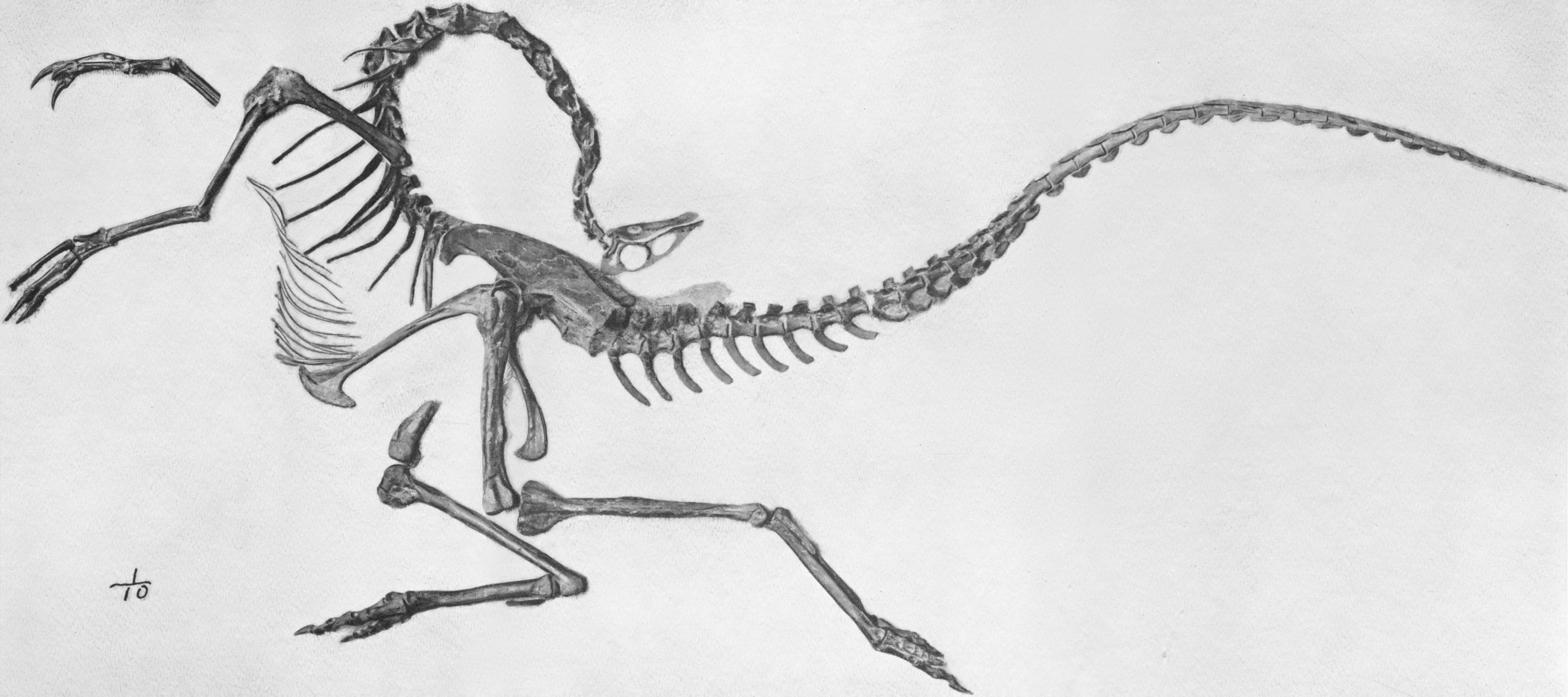 Struthiomimus altus. Genotype specimen, Amer. Mus. 5339.